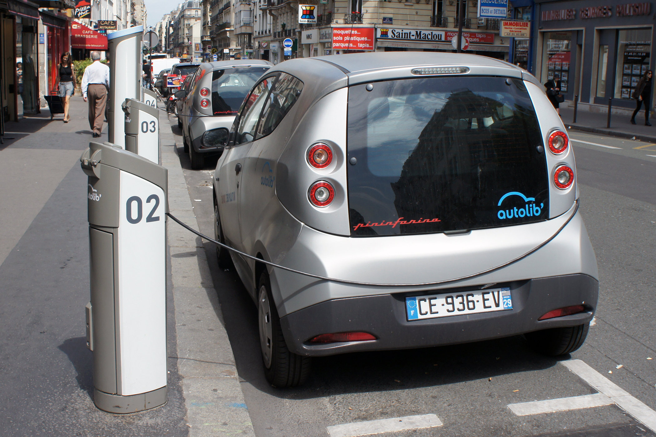 Bolloré Bluecars recharging at an Autolib' carsharing service kiosk on Rue de Vaugirard (no 230) in Paris.